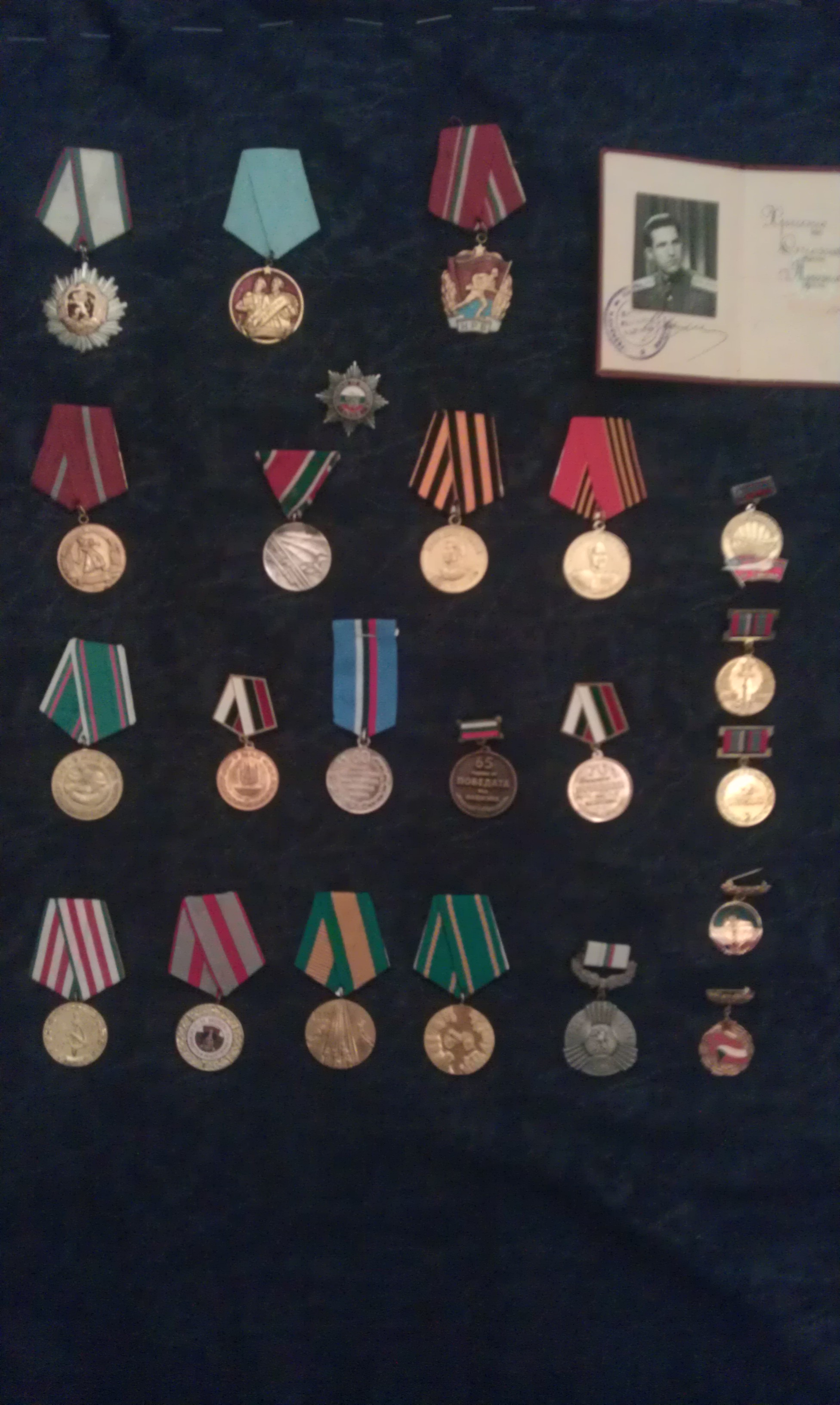 Ордени и медали на Хр. Траянов